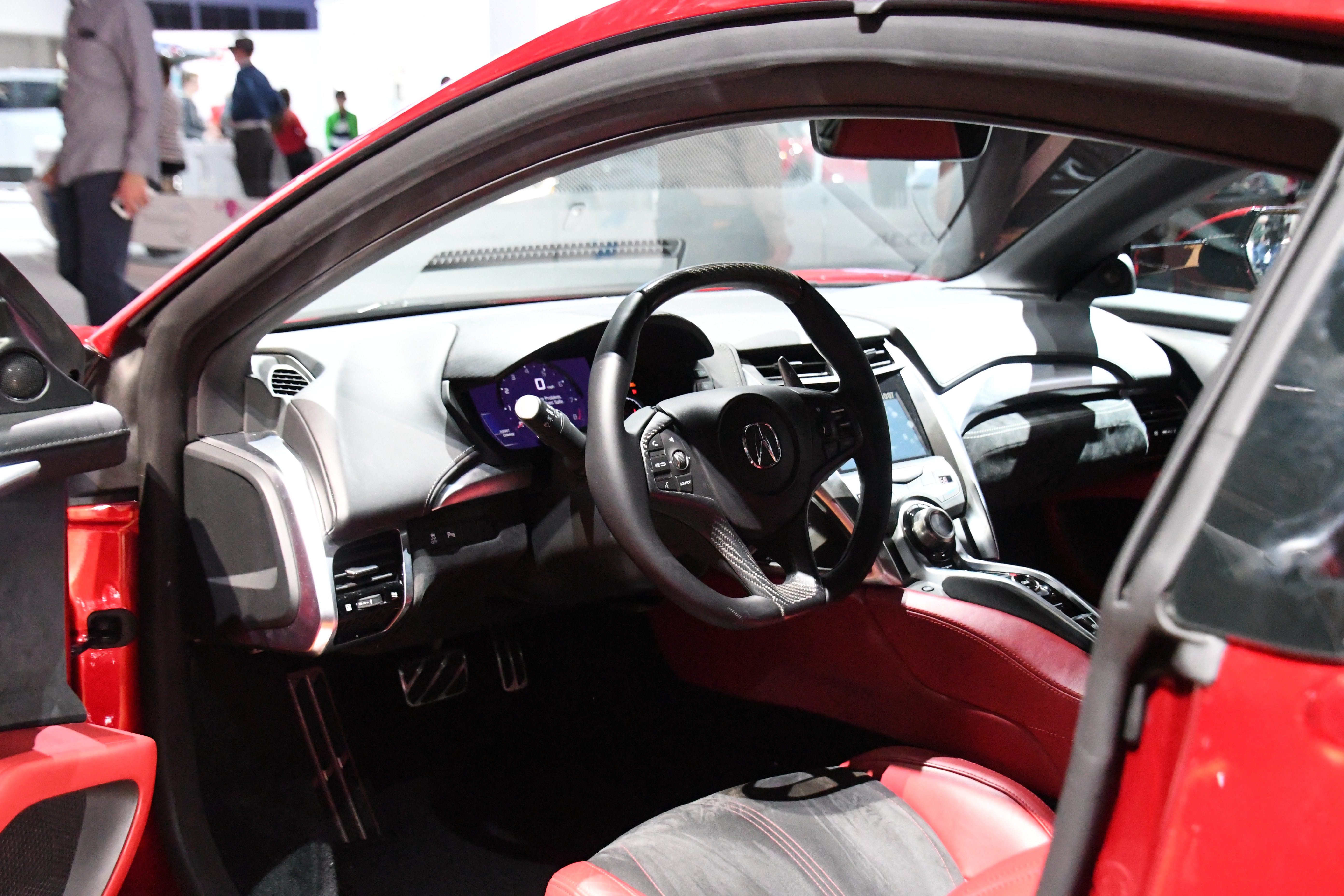 Acura NSX interior. A scene from public display days of the 2018 North American International Auto Show held in Cobo Center in downtown Detroit, Michigan. January, 2018